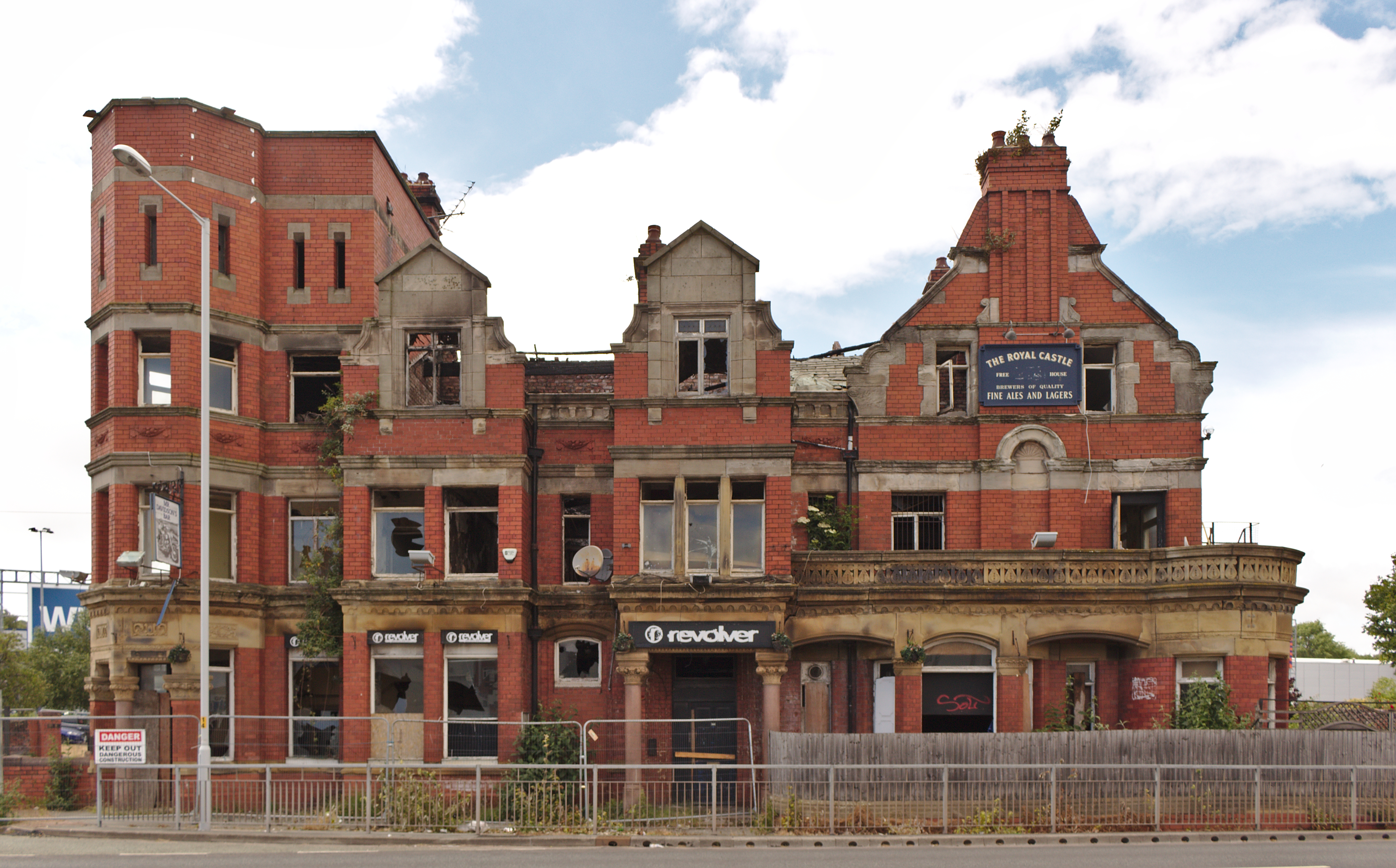 Frontage on Chester Street, looking very dilapidated and I doubt anyone will care to restore this.